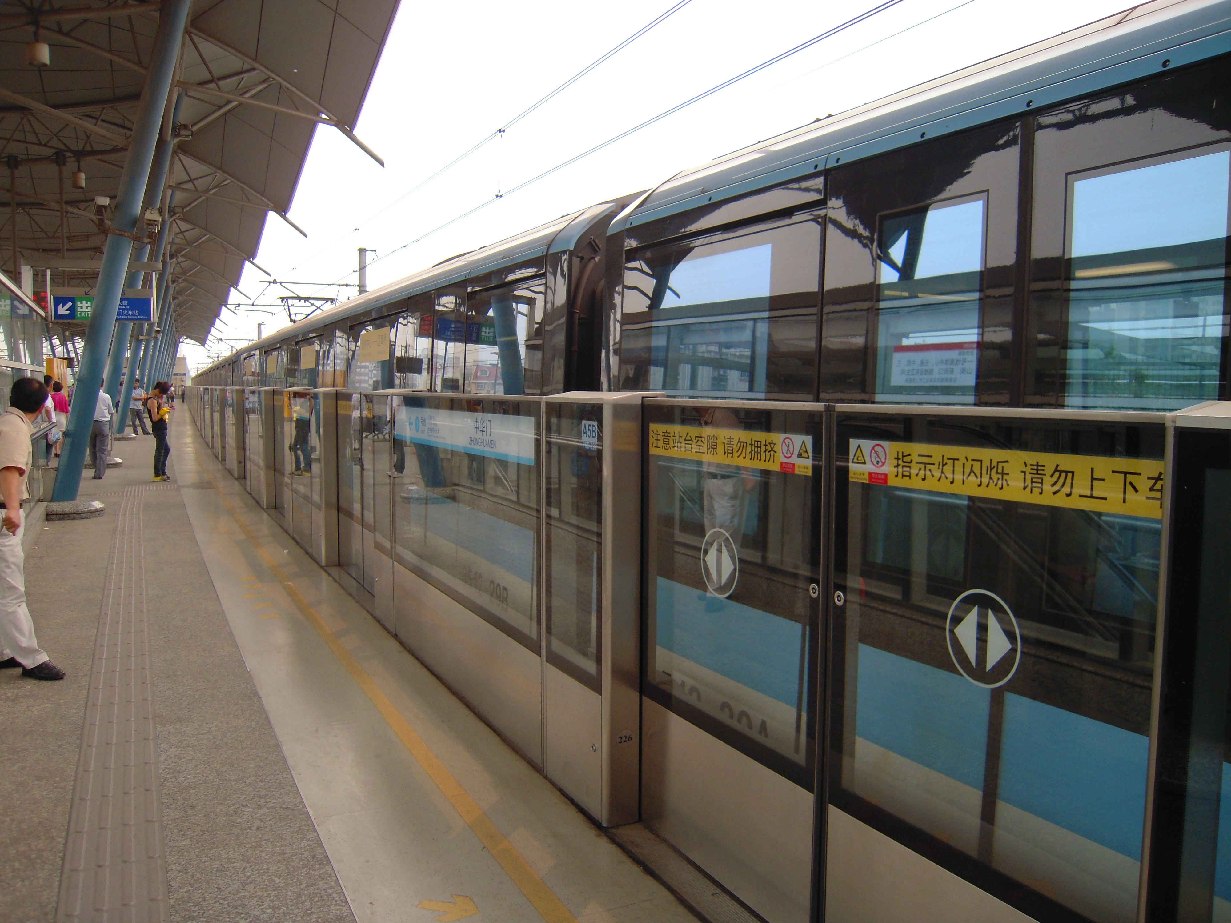 Screen door in Zhonghuamen Station of Nanjing Metro